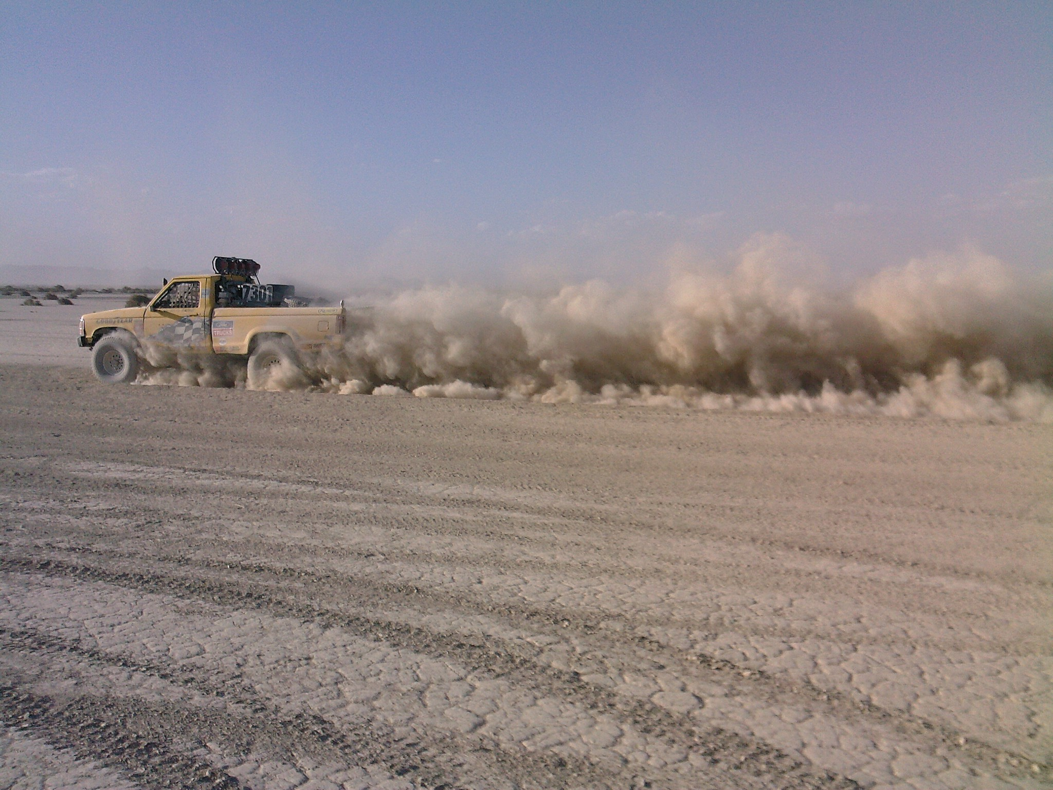 Carl Fitts blows through Millers pit on the way to a dominating 7300 class victory at the 2008 Best in the Desert (BITD) Vegas to Reno off-road race. Boy Scout Venture Crew 35 is going to rebuild a Ford Ranger to race in SCORE's Baja 1000 and Best In The Desert's (BITD) Vegas to Reno. Check out the project at